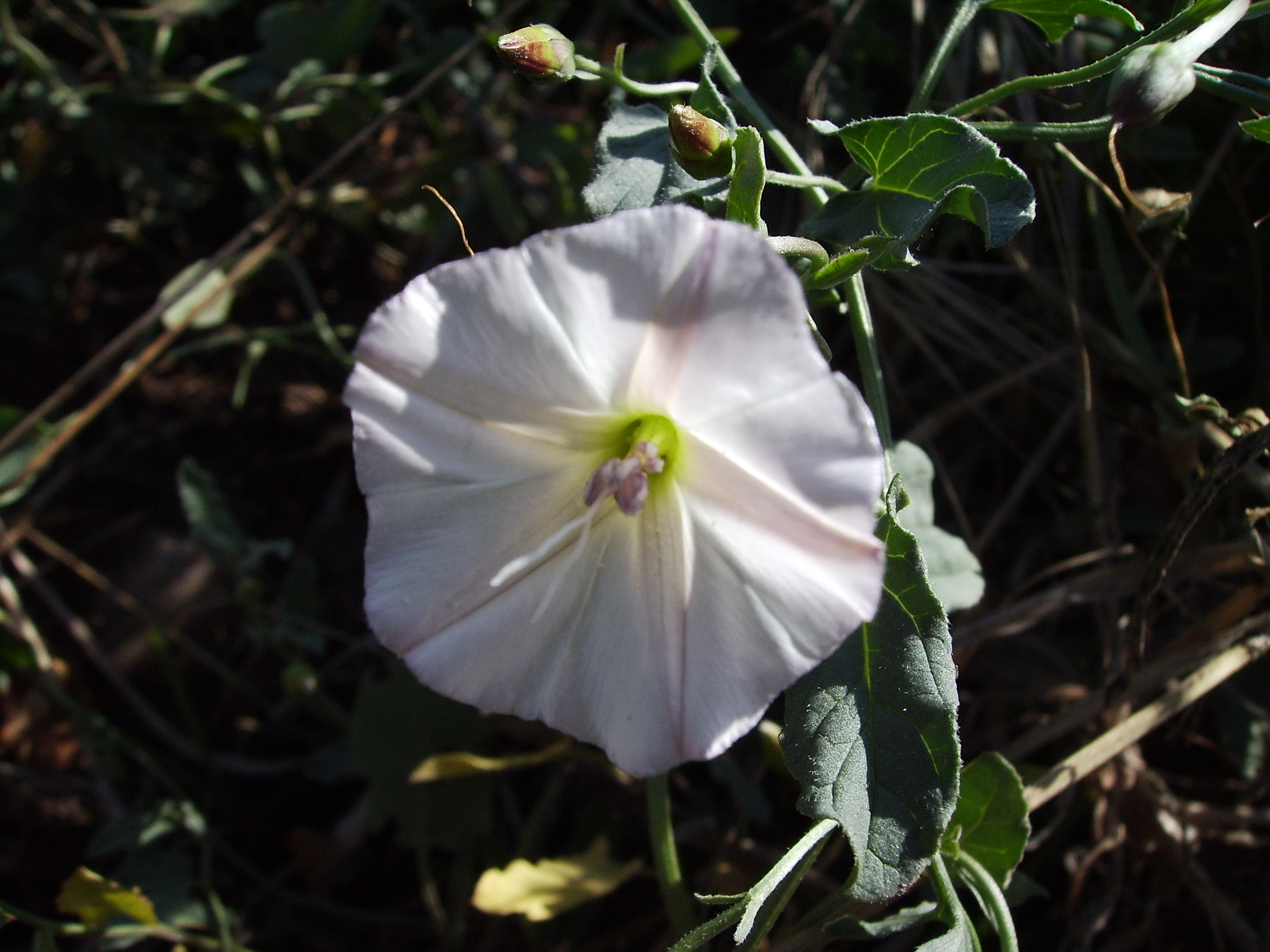 Image:Convolvulus arvensis 8 agost06.jpg My own work,Castelltallat